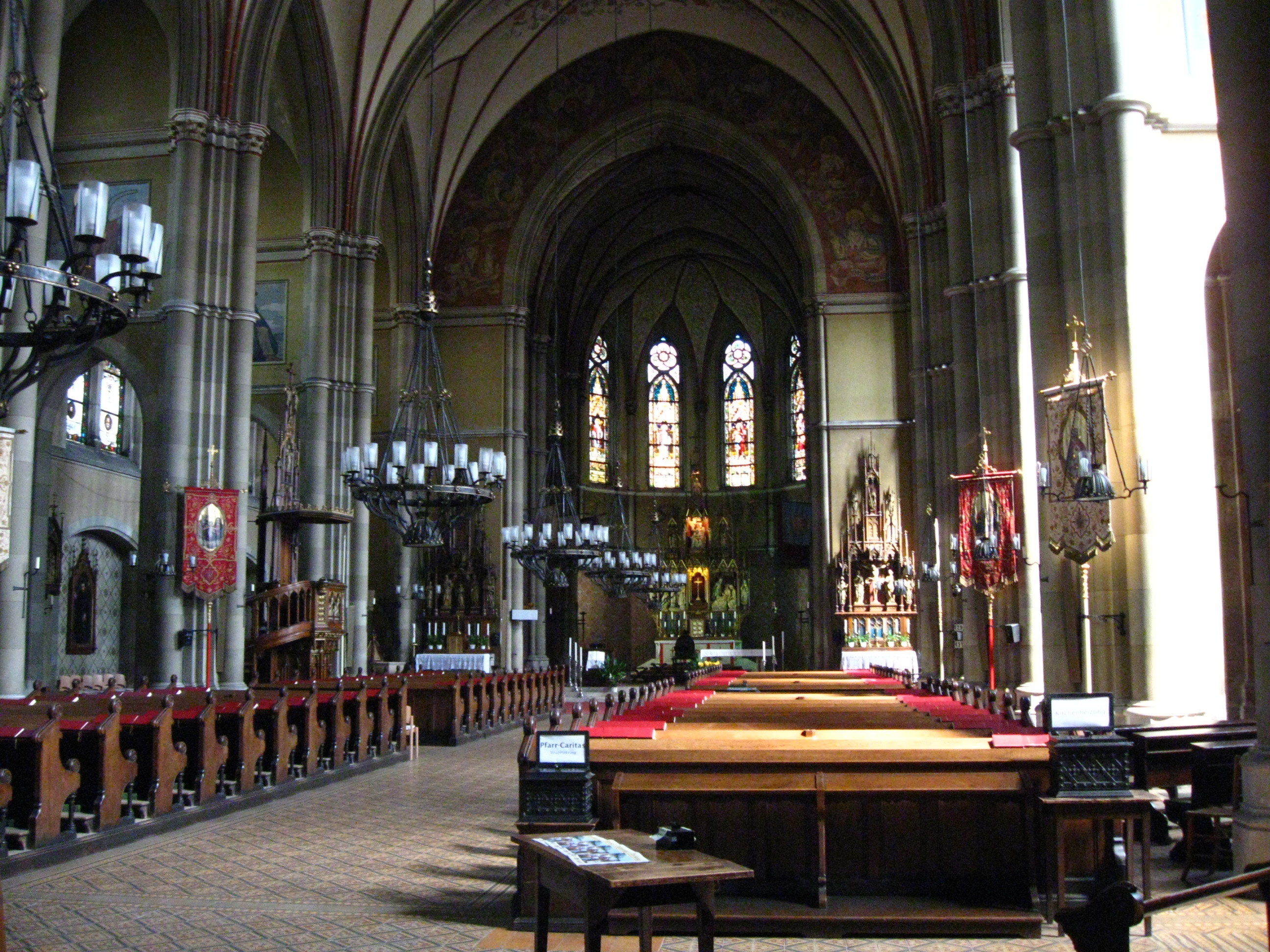 Neuottakring parish church, interior room